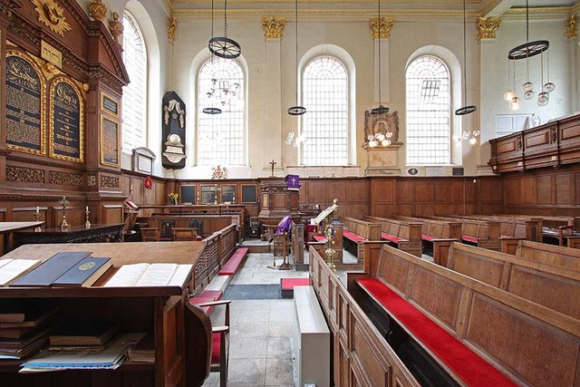 St Benet Paul's Wharf, Queen Victoria Street, London EC4 - Interior, near to City of London, Great Britain.